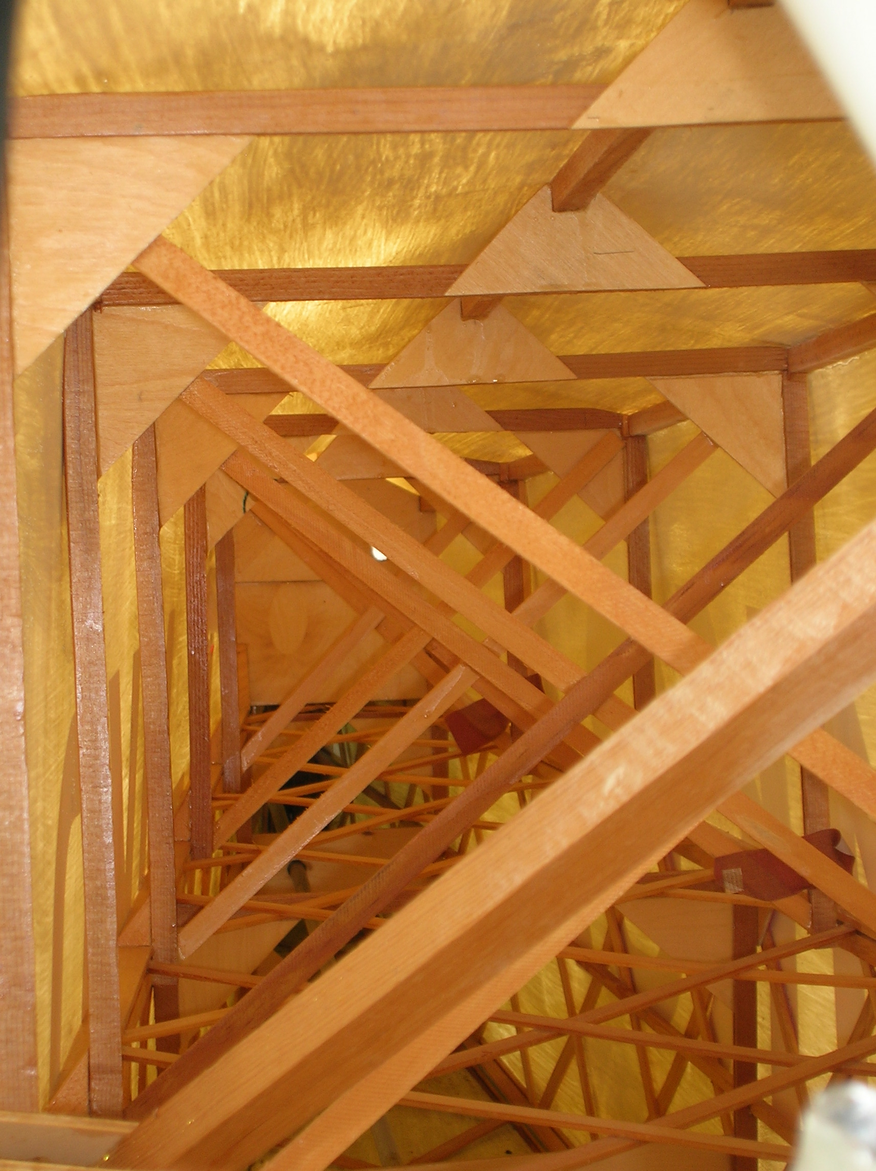 Wooden fuselage of a Fisher FP-202 Koala. Picture was taken at german airfield Schmallenberg-Rennefeld